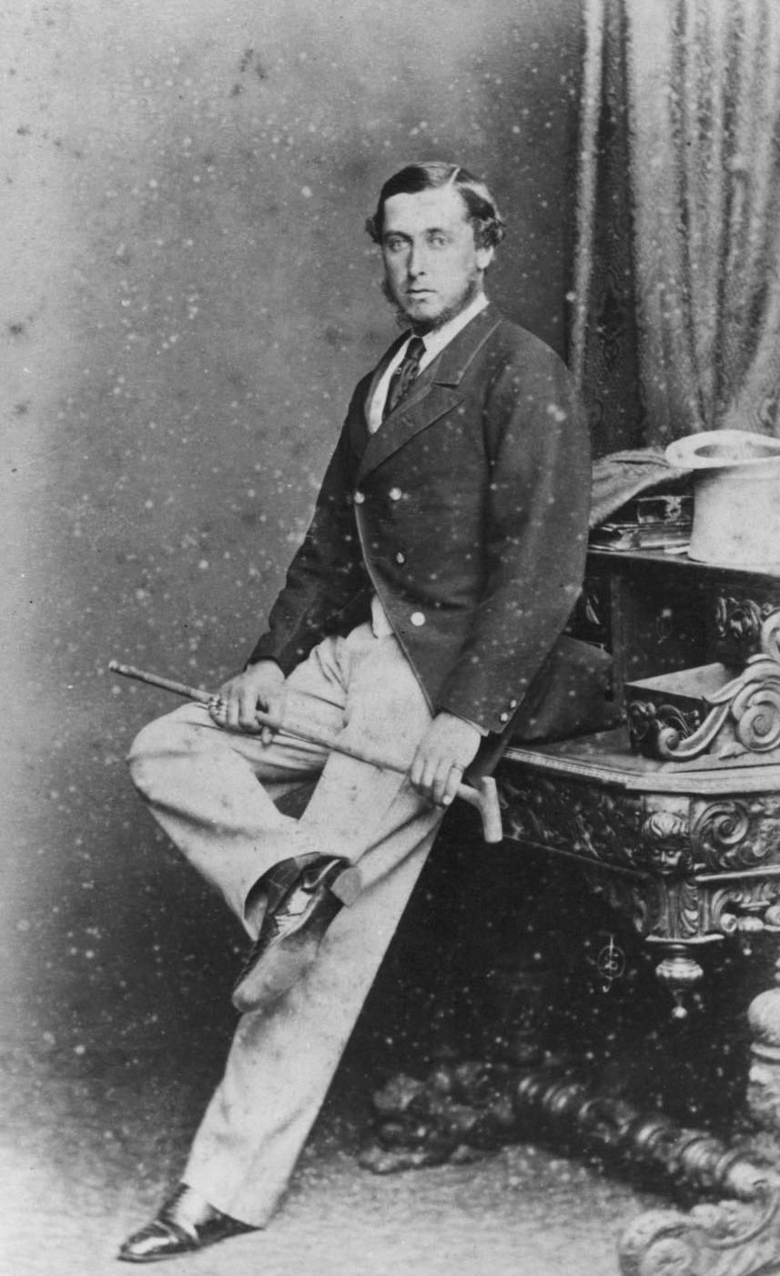 Prince Alfred, Duke of Edinburgh, son to Queen Victoria.